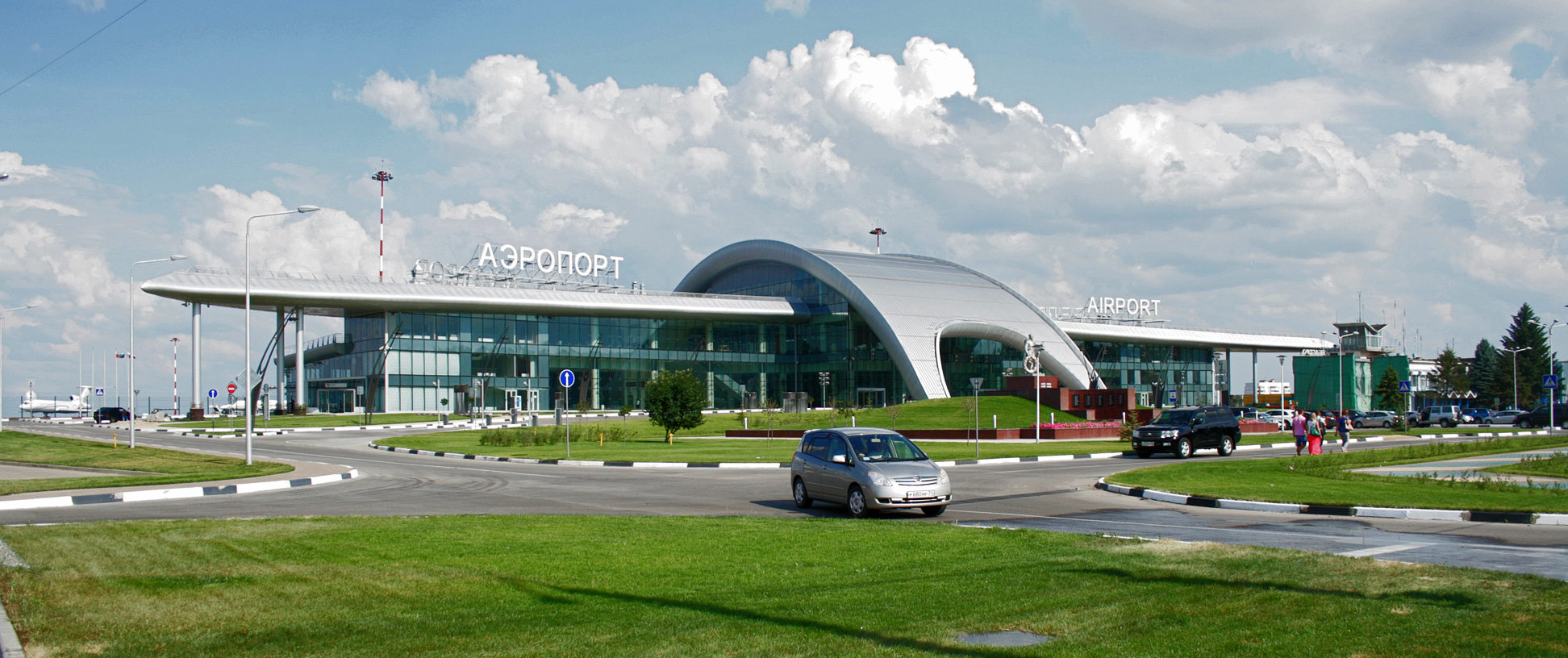 Belogrod Airport, Russia